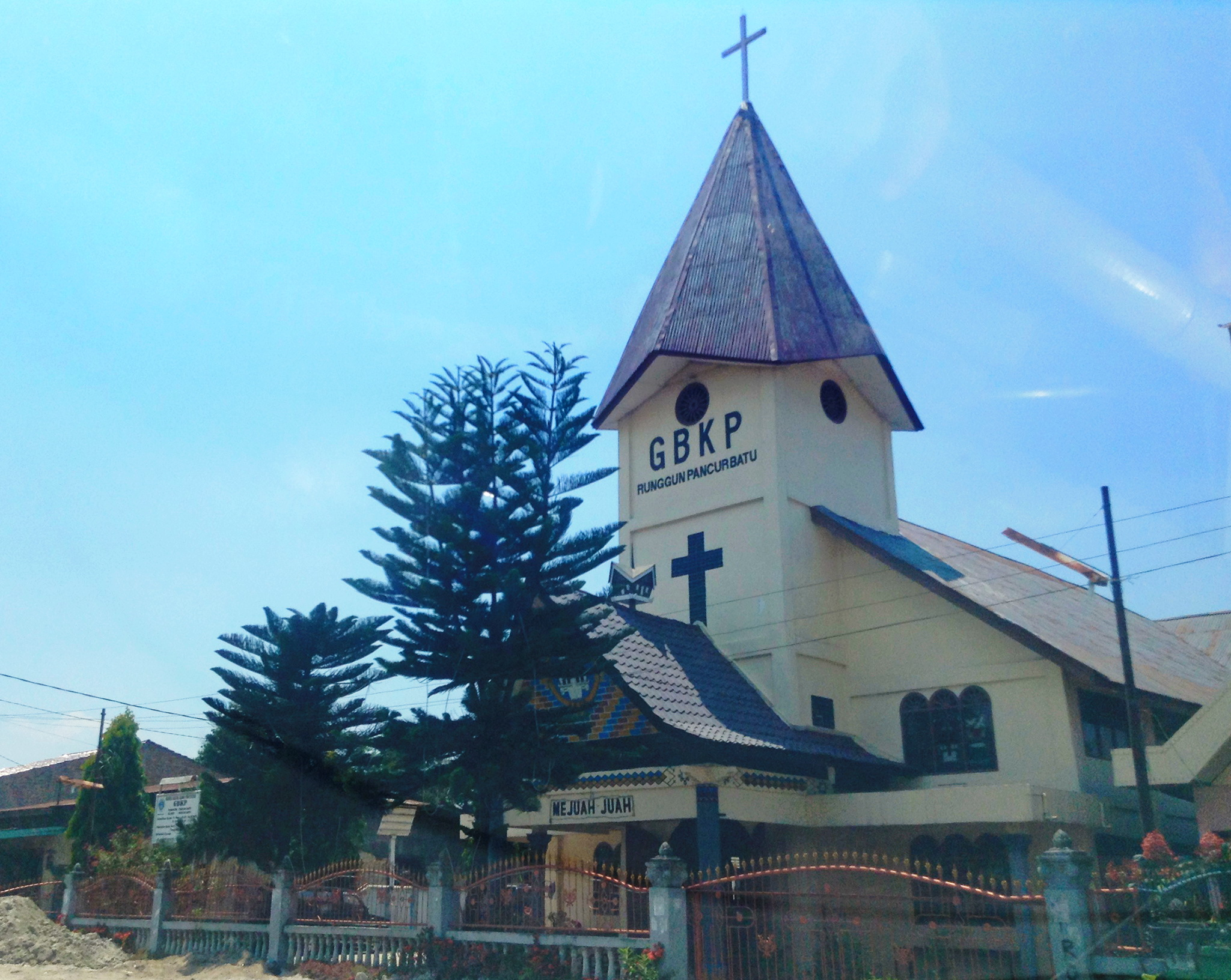 GBKP Rg. Pancur Batu Klasis Pancur Batu, Church in Pancur Batu, Deli Serdang